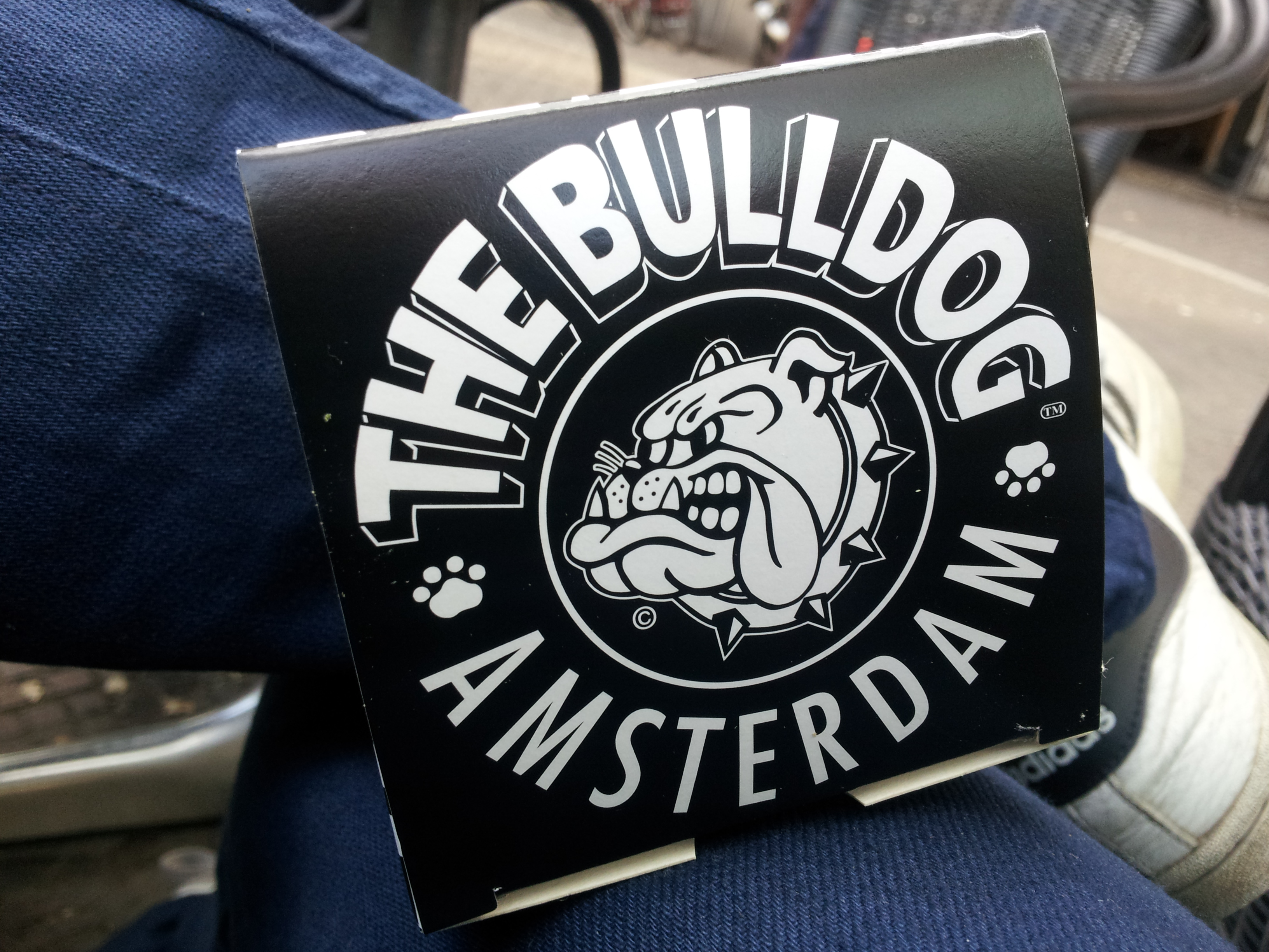 Packaged hashish cupcake, purchased from a Bulldog coffeshop in the Red Light District (De Wallen), Amsterdam, the Netherlands.